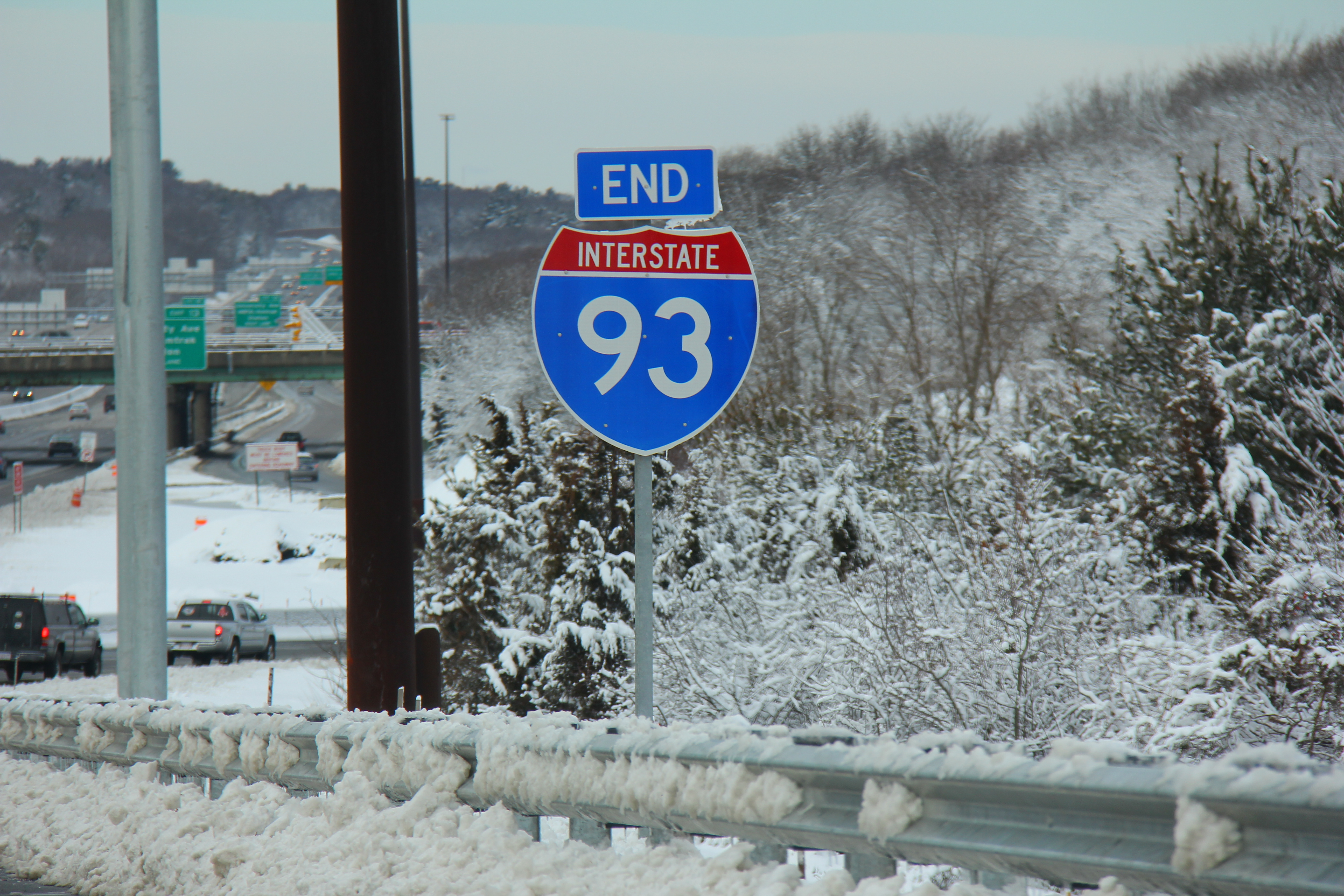 End Interstate 93 sign at the southern terminus of the highway in Milton, Mass.